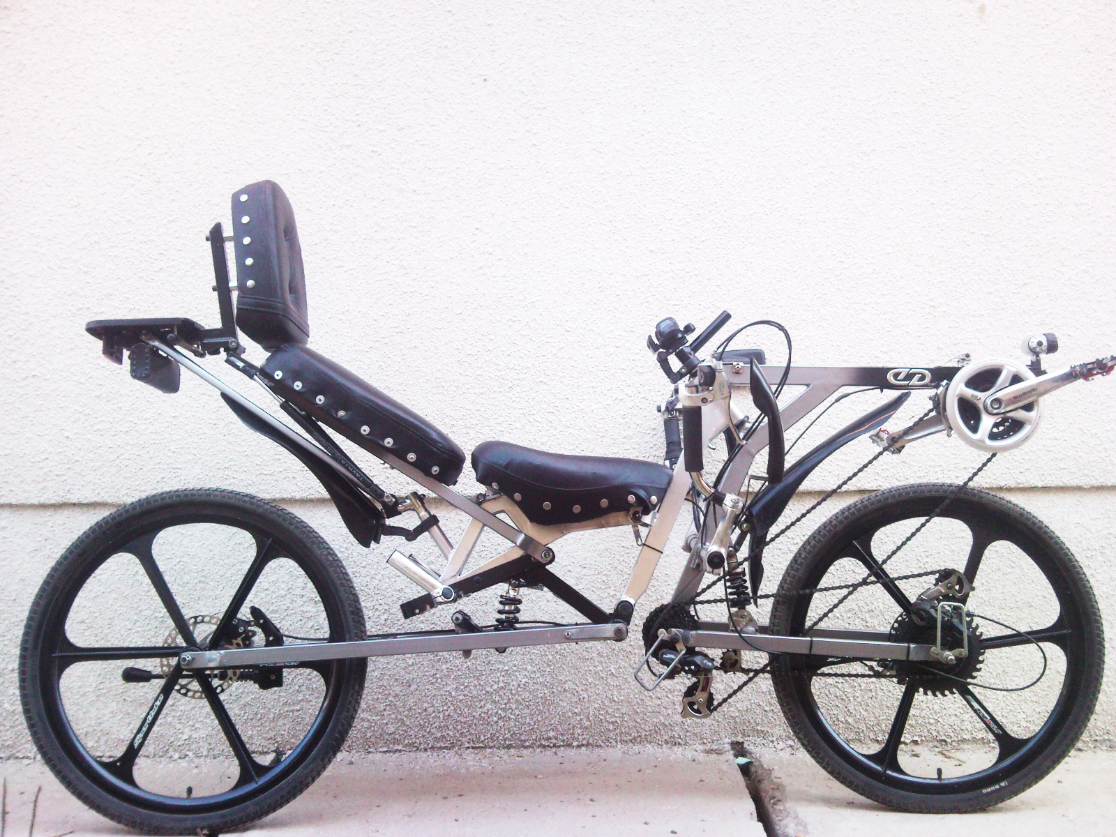 FWD (Front wheel driven) recumbent bicycle «Android» (front fork: 45°)